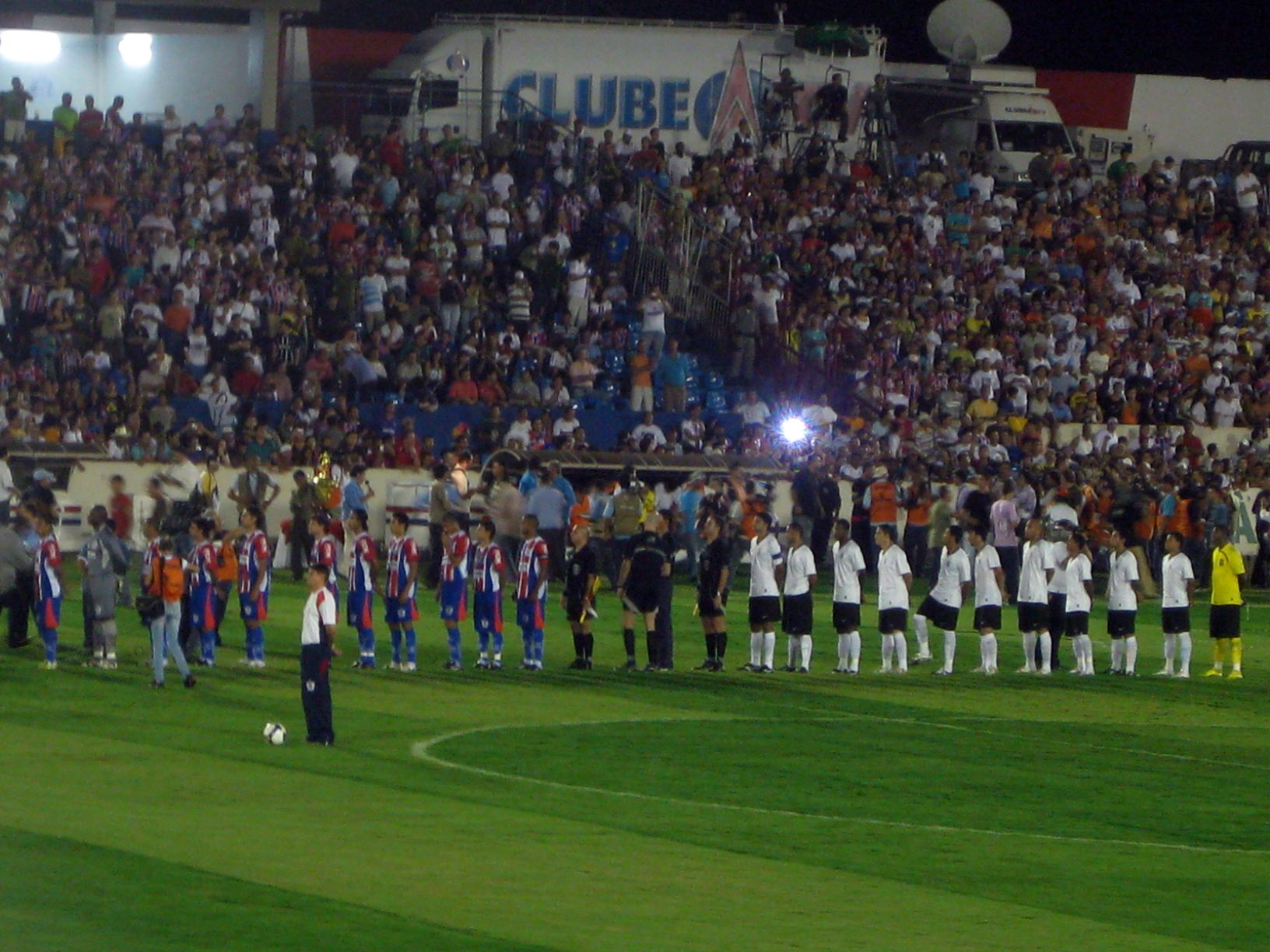 Match between Itumbiara and Corinthians for the first round of the Brazil Cup in 2009